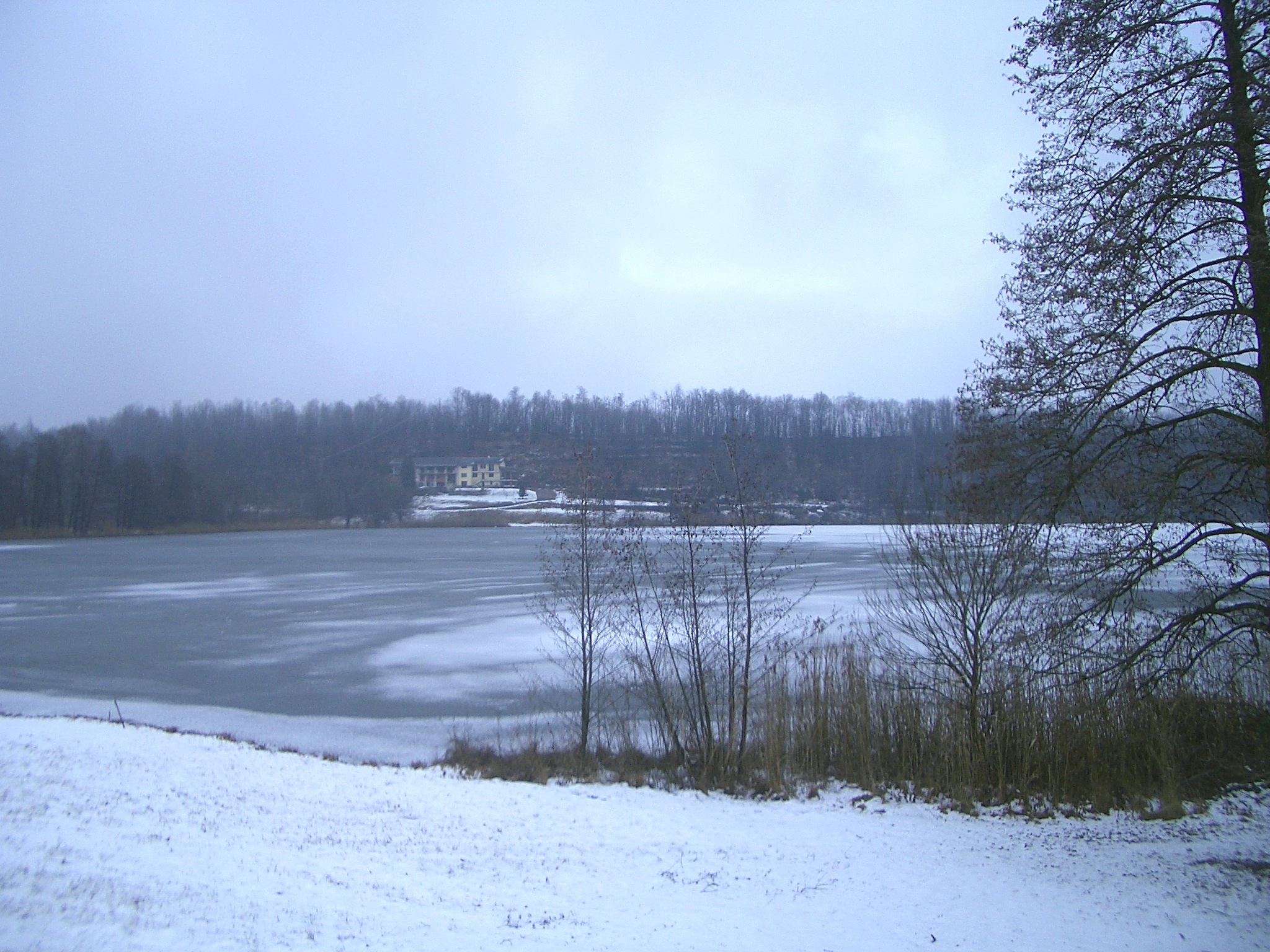 Alice lake in wintertime, Vico Canavese, Torino, Italy